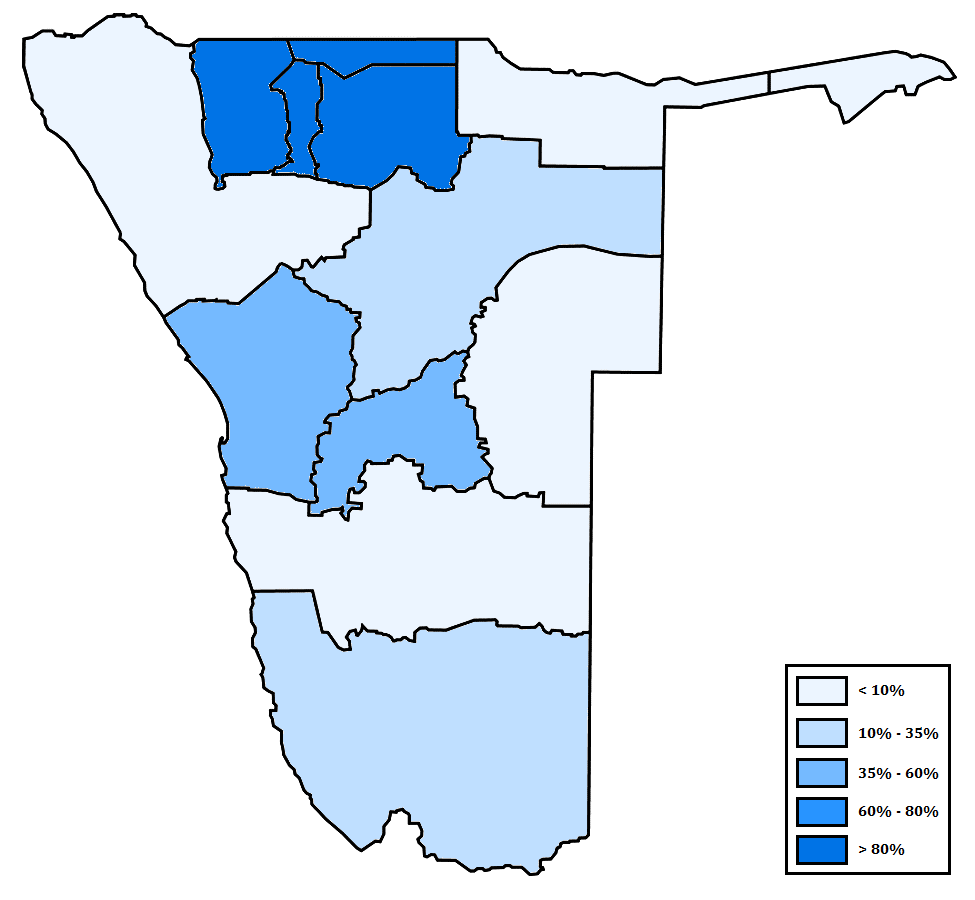 Distribution of Oshiwambo in Namibia per region